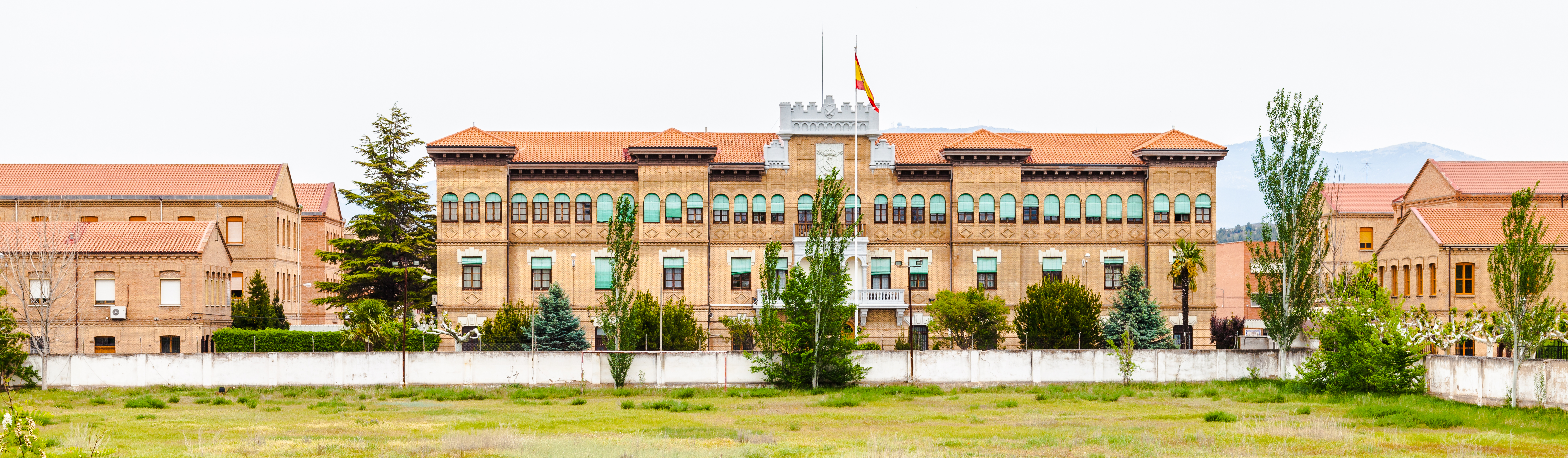 Barracks of the Spanish Army Barón de Warsage, Calatayud, Spain